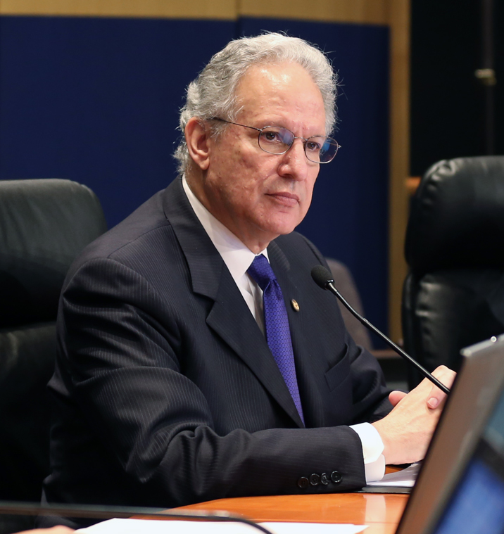 Member Mark Rosekind and staff listen to presentations delivered by panelists during the Drowsy Driving forum held today.